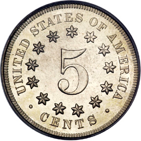 1867 Five Cents, Shield, Reverse